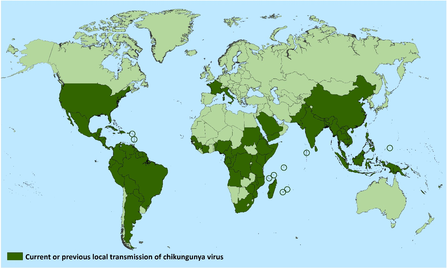 Countries and territories where chikungunya cases have been reported* (as of September 17, 2019) Does not include countries or territories where only imported cases have been documented. Countries and territories where chikungunya cases have been reported AFRICA Angola Benin Burundi Cameroon Central African Republic Comoros Cote d'Ivoire Democratic Republic of the Congo Djibouti Equatorial Guinea Eritrea Ethiopia Gabon Guinea Kenya Madagascar Malawi Mauritius Mayotte Mozambique Nigeria Republic of the Congo Reunion Senegal Seychelles Sierra Leone South Africa Somalia Sudan Tanzania Uganda Zimbabwe ASIA Bangladesh Bhutan Cambodia China India Indonesia Laos Malaysia Maldives Myanmar (Burma) Nepal Pakistan Philippines Saudi Arabia Singapore Sri Lanka Taiwan Thailand Timor-Leste Vietnam Yemen EUROPE France Italy AMERICAS Anguilla Antigua and Barbuda Argentina Aruba Bahamas Barbados Belize Bolivia Brazil British Virgin Islands Cayman Islands Colombia Costa Rica Cuba Curacao Dominica Dominican Republic Ecuador El Salvador French Guiana Grenada Guadeloupe Guatemala Guyana Haiti Honduras Jamaica Martinique Mexico Montserrat Nicaragua Panama Paraguay Peru Puerto Rico Saint Barthelemy Saint Kitts and Nevis Saint Lucia Saint Martin Saint Vincent and the Grenadines Sint Maarten Suriname Trinidad and Tobago Turks and Caicos Islands United States US Virgin Islands Venezuela OCEANIA/PACIFIC ISLANDS American Samoa Cook Islands Federal States of Micronesia Fiji French Polynesia Kiribati Marshall Islands New Caledonia Papua New Guinea Samoa Tokelau Tonga